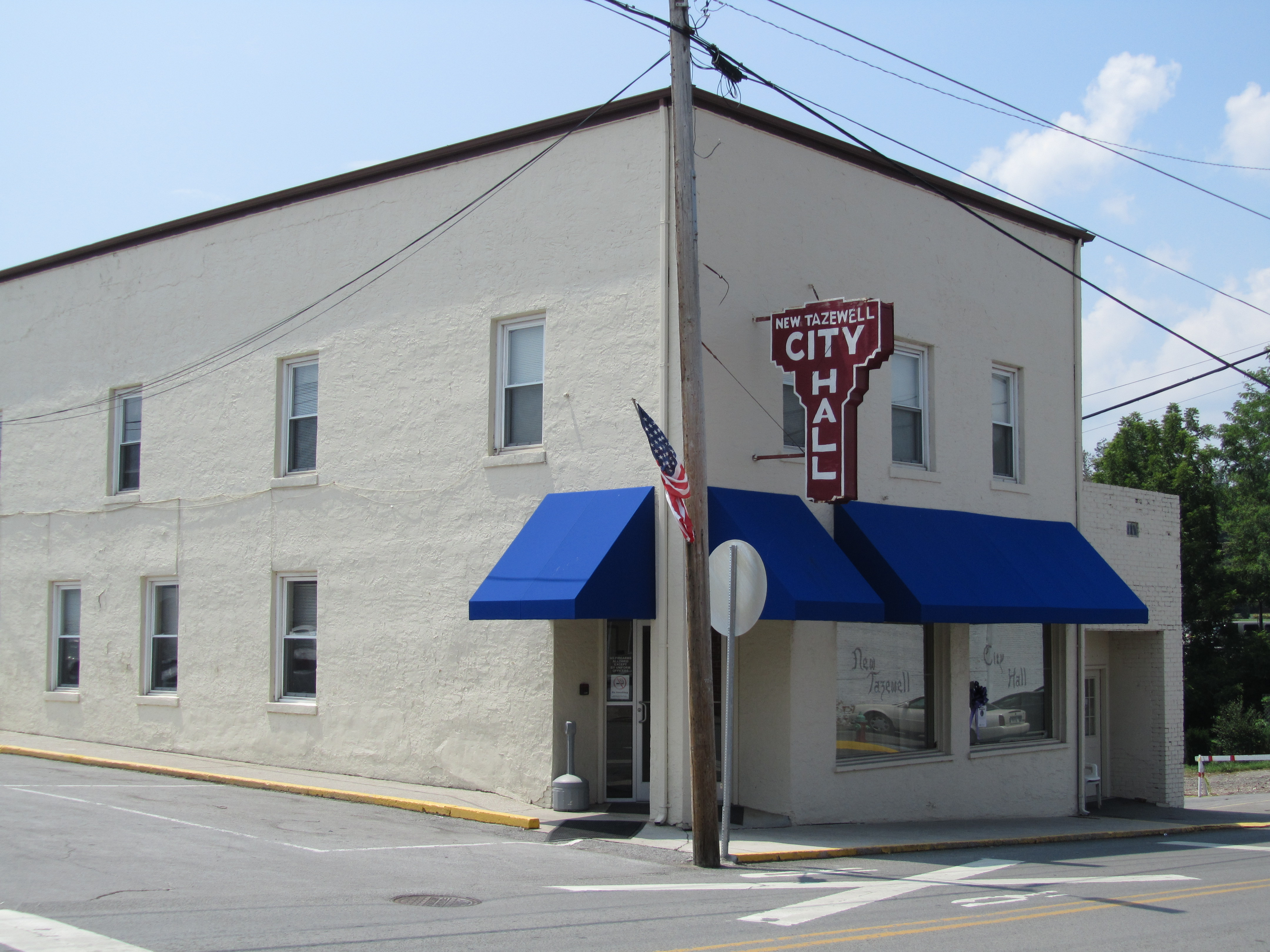 City Hall in New Tazewell TN is located in a historic building.